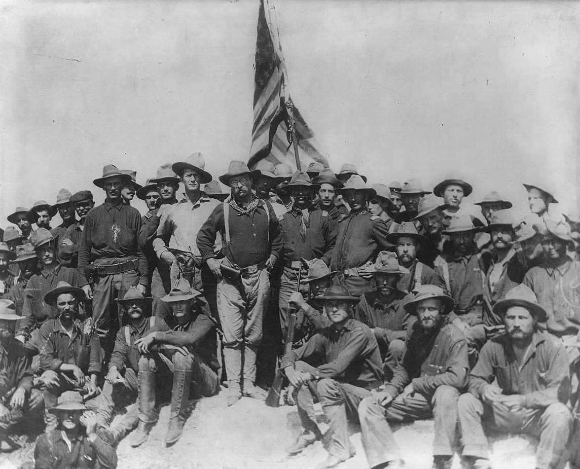 Col Theodore Roosevelt stands triumphant on San Juan Hill, Cuba after his "Rough Riders" captured this hill and its sister Kettle Hill during the Spanish American War. Theodore Roosevelt Association and Library of Congress as well as Public Domain